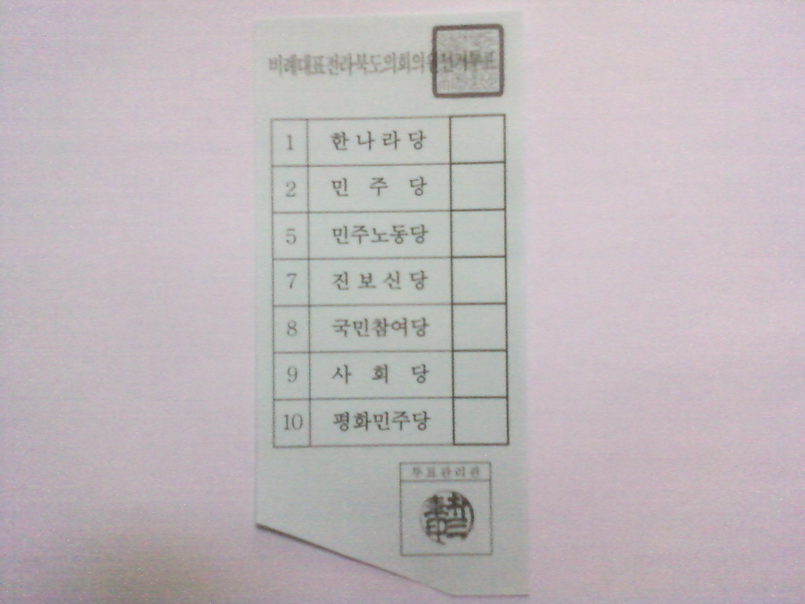 Korean 5th local election ballot paper (전라북도의회의원비례대표)